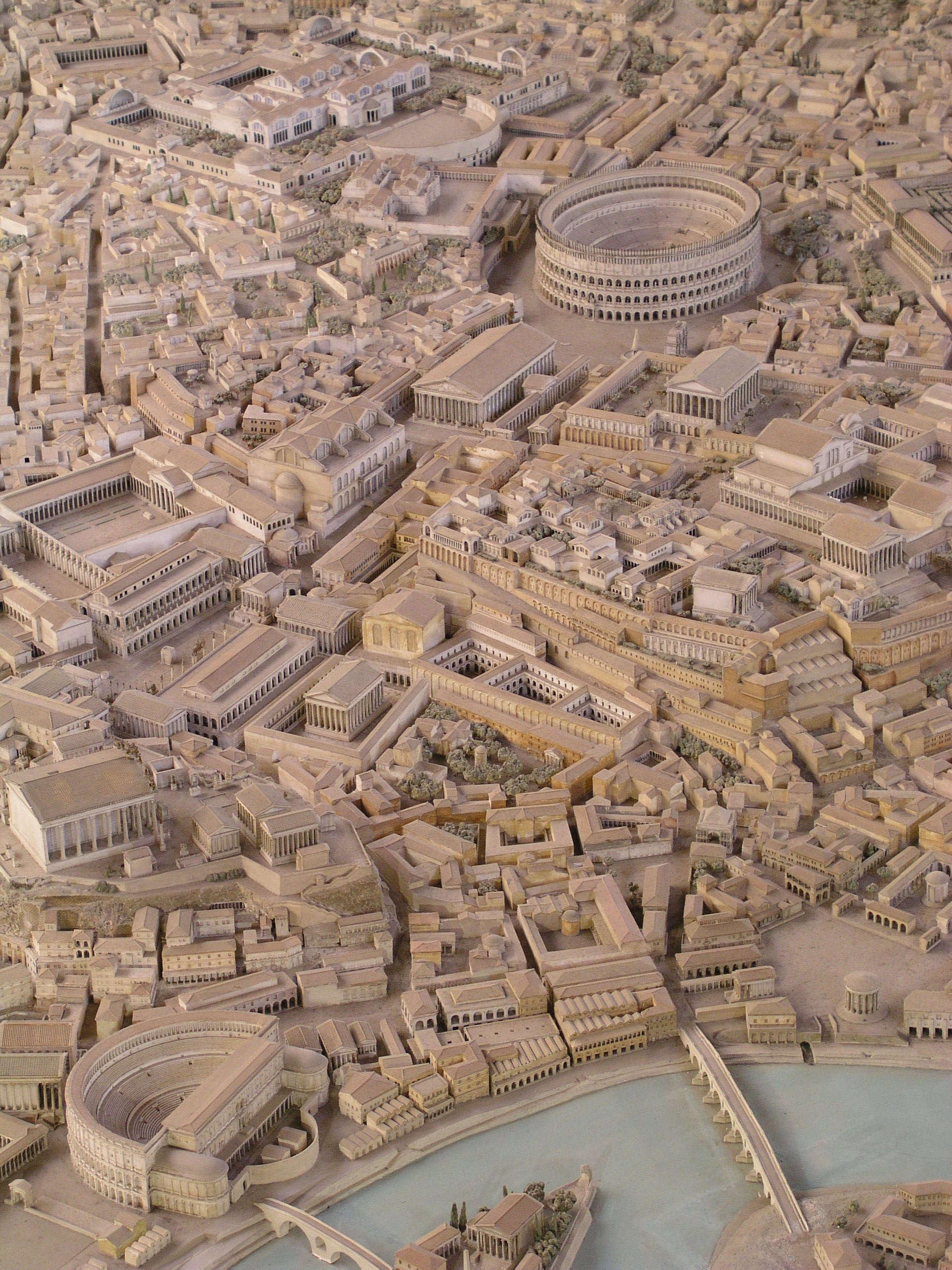 The Great "Plastico", the model of ancient Rome in 1:250 by Italo Gismondi. The model is on display in the Museum of Roman Civilization in Rome.